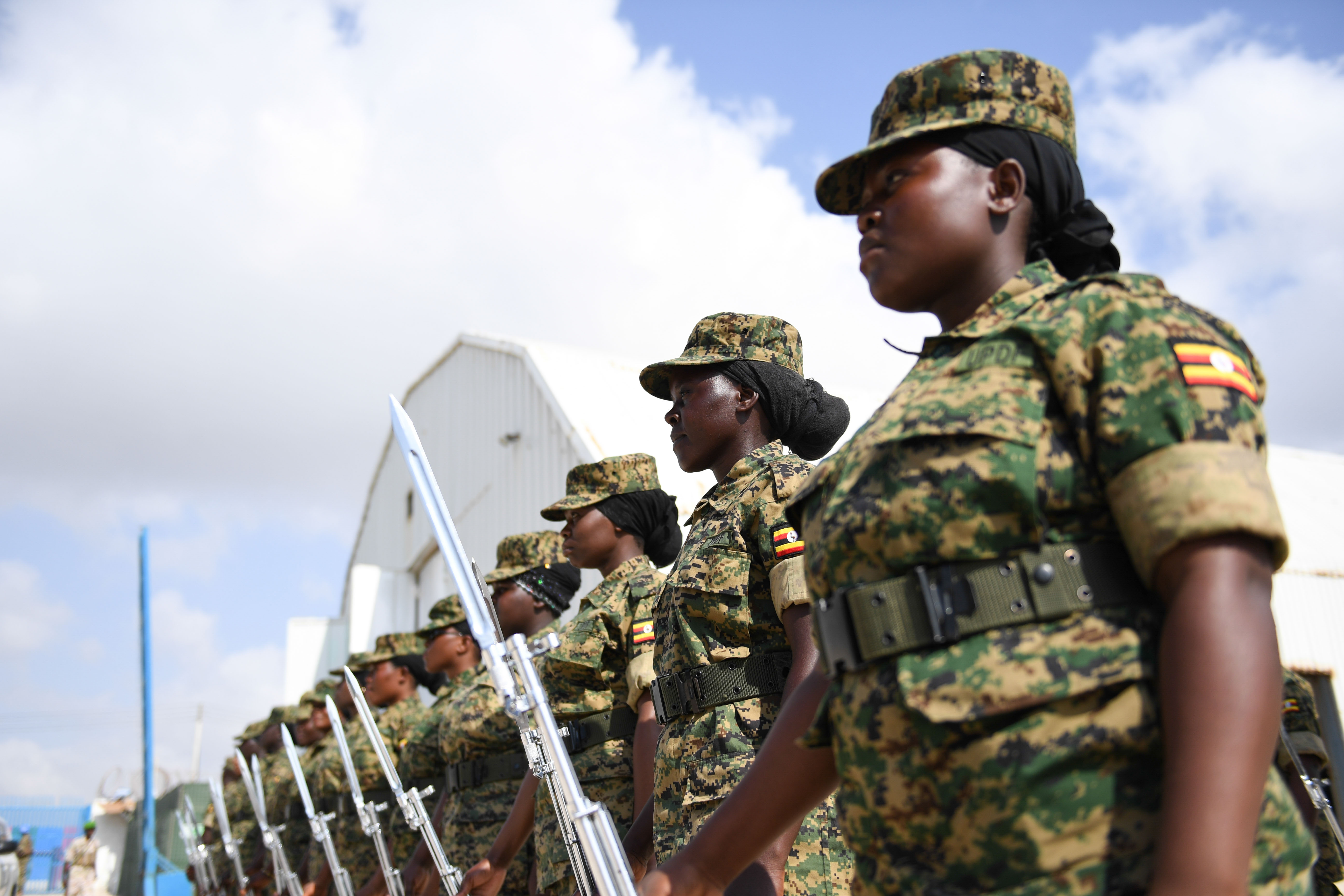 The African Union Mission in Somalia (AMISOM) female soldiers mount a Guard of Honour during AMISOM Female Peacekeepers' Conference in Mogadishu on December 12, 2016. AMISOM Photo / Ilyas Ahmed